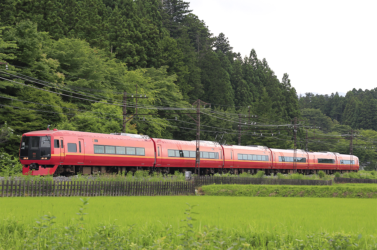 A JR East E253-1000 series EMU on the Tobu Nikkō Line on a Nikkō limited express service